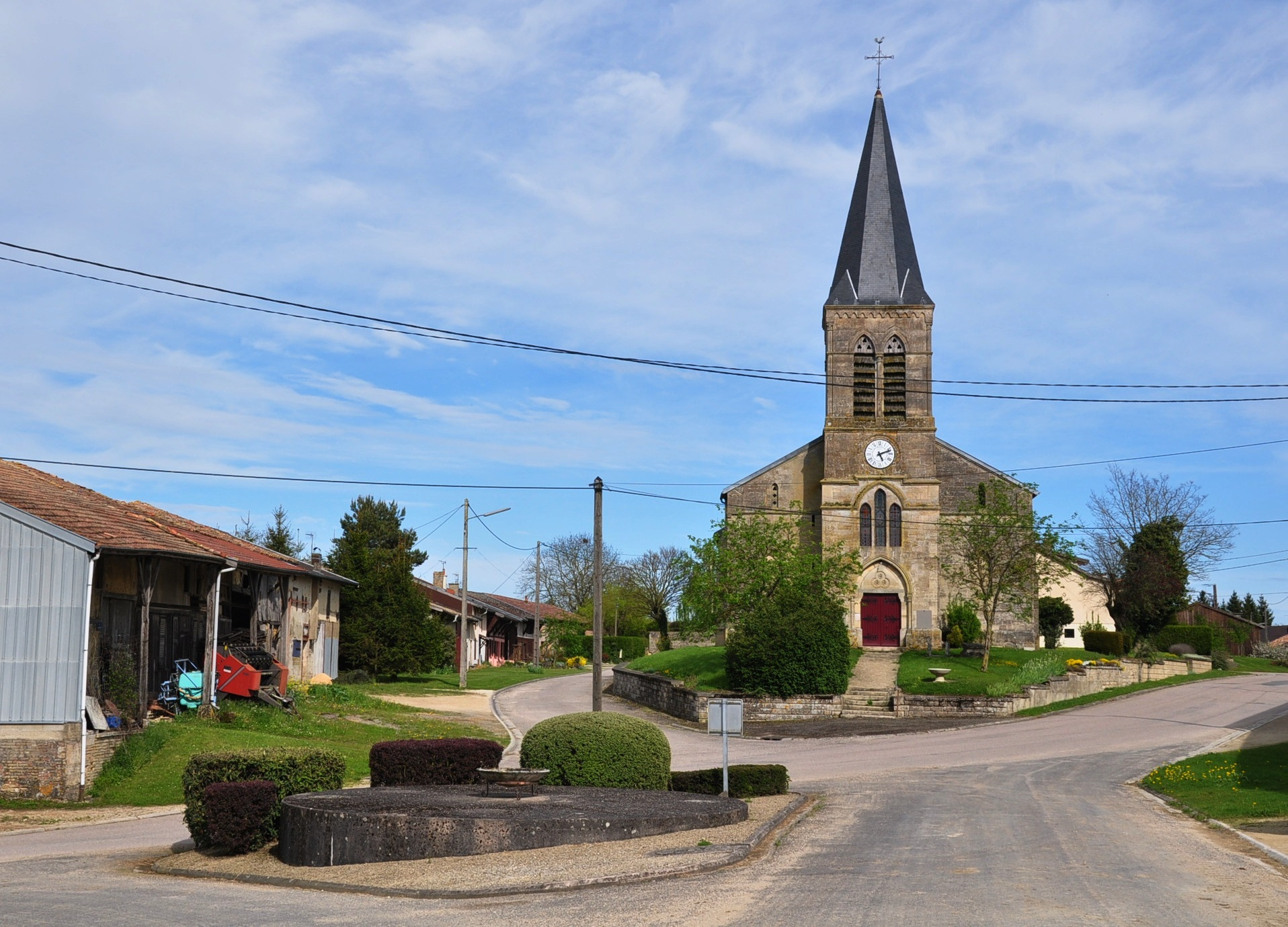 Center of Brizeaux (Canton Seuil-d'Argonne, Meuse department, Lorraine region, France).